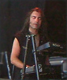 André Andersen, founder of Danish progressive metal band Royal Hunt, during a performance at the Sweden Rock Festival in 2008. (Sorry about lousy image but at the moment there is no other image of him available so it's better than nothing.)